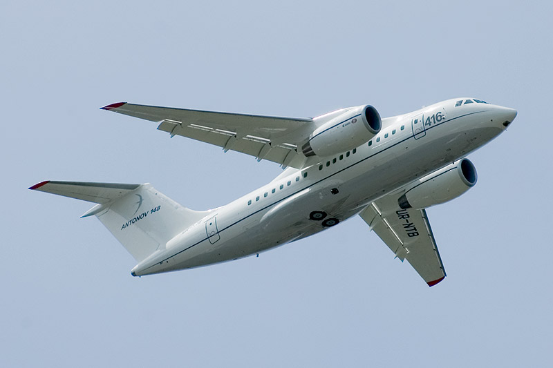 Antonov An 148 at Paris Air Show 2007